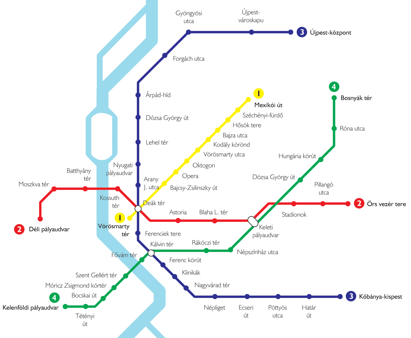 Map of the 3 existing metro lines of Budapest, Hungary, as well as the fourth one , which is under construction.